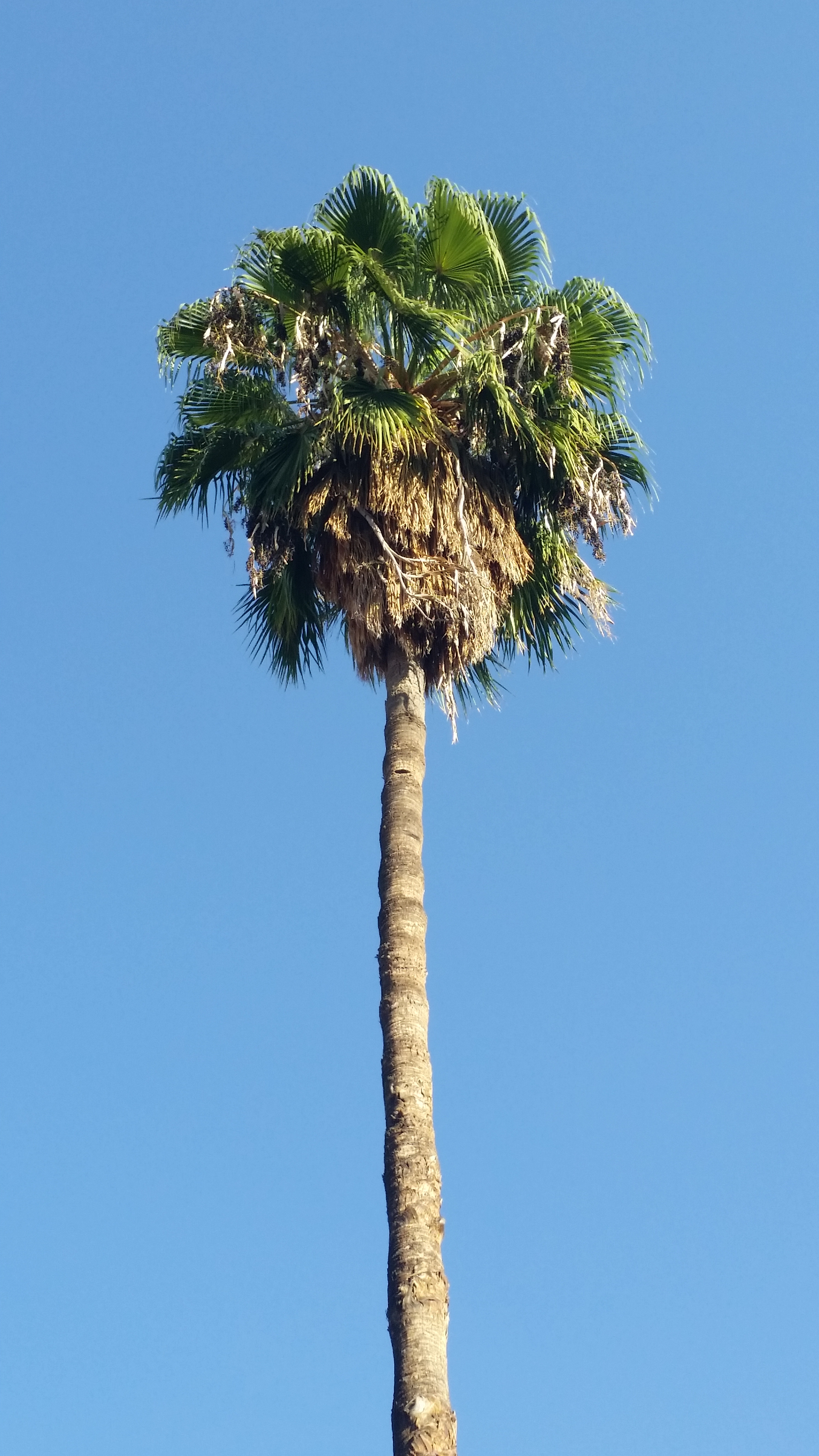 Mexican fan palm or Mexican washingtonia (Washingtonia robusta) in Majorelle Garden, Marrakesh, Morocco.